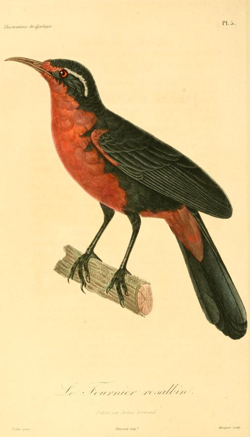 « Fournier rosalbin, Furnarius roseus » = Rhodinocichla rosea (Rosy Thrush-Tanager)